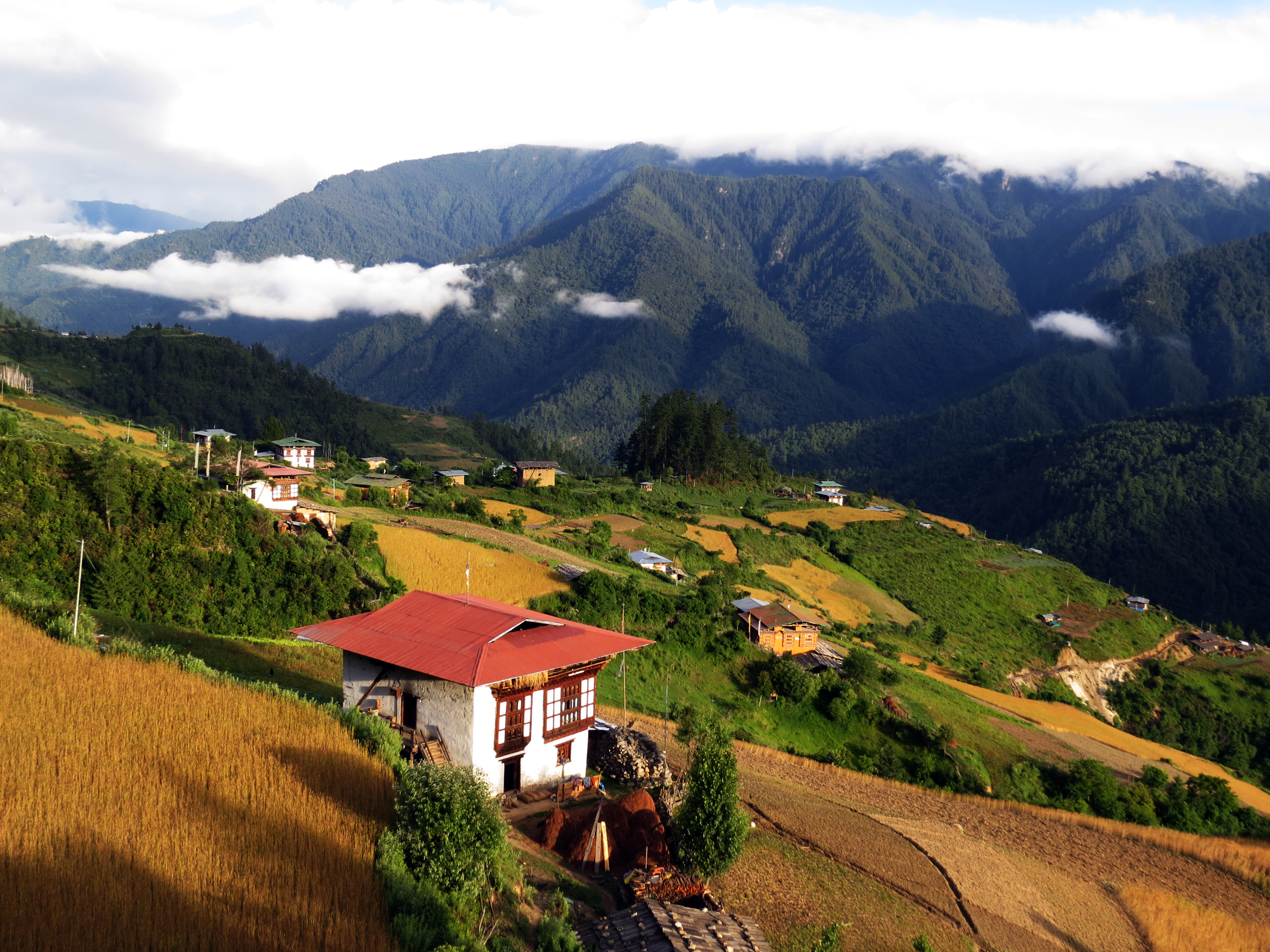 A scenic view of ripening wheat fields in Western Bhutan